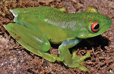 Anurans from the RPPN Serra Bonita, Bahia State, Northeastern Brazil. a Brachycephalus pulex b Ischnocnema verrucosa c Ischnocnema sp. 1 (gr. parva) d Rhinella crucifer e R. granulosa f Vitreorana eurygnatha g V. uranoscopa h Haddadus binotatus i “Eleutherodactylus” bilineatus j Pristimantis sp. 1 l P. vinhai m Adelophryne sp. n Gastrotheca pulchra o Aplastodiscus ibirapitanga; and p A. cf. weygoldti.